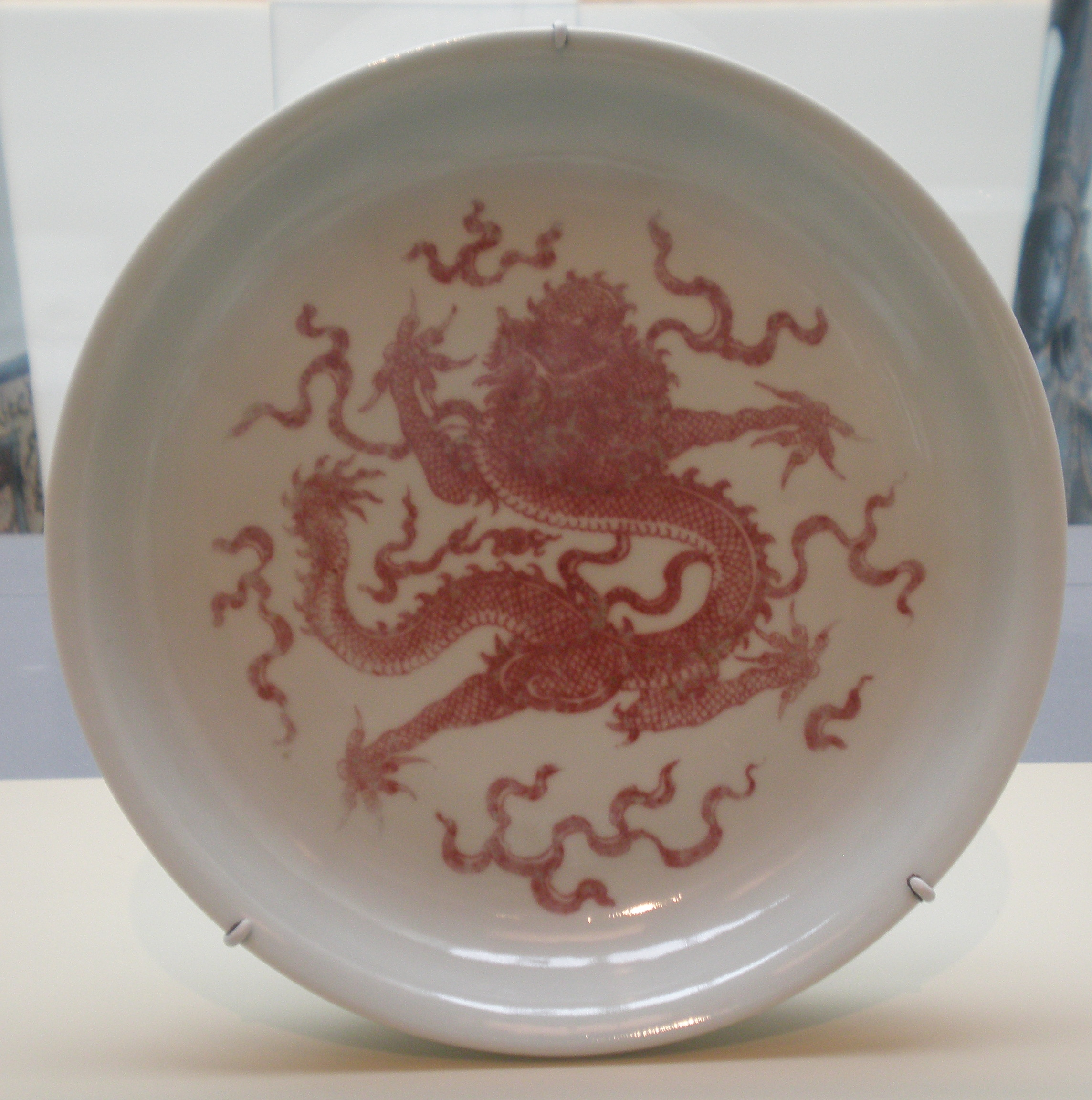 Plate with dragons, Jingdezhen, Jiangxi Province, Qing Dynasty, reign of the Kangxi emperor (1662-1722). On display at the Asian Art Musem of San Francisco. B60P1122